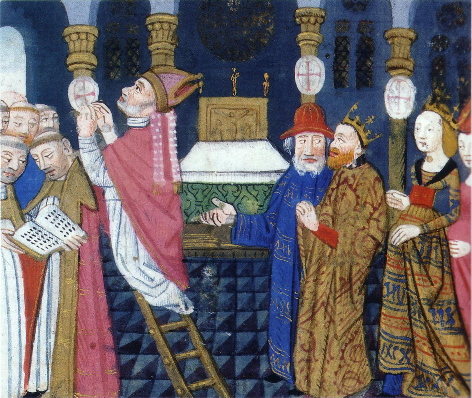 Ms 869/522 f.41r Dedication by St. Germain in the Presence of Clotaire (d.629) of the Church of St. Vincent, built by Childebert (vellum).